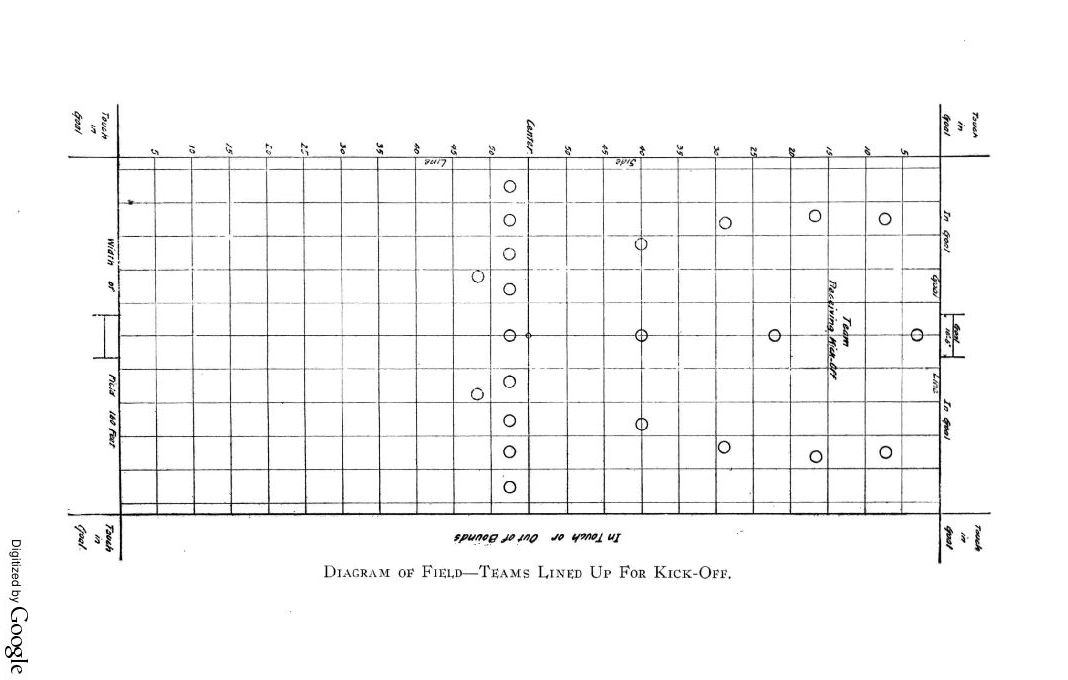 Diagram of Field - Teams Lined up for Kickoff